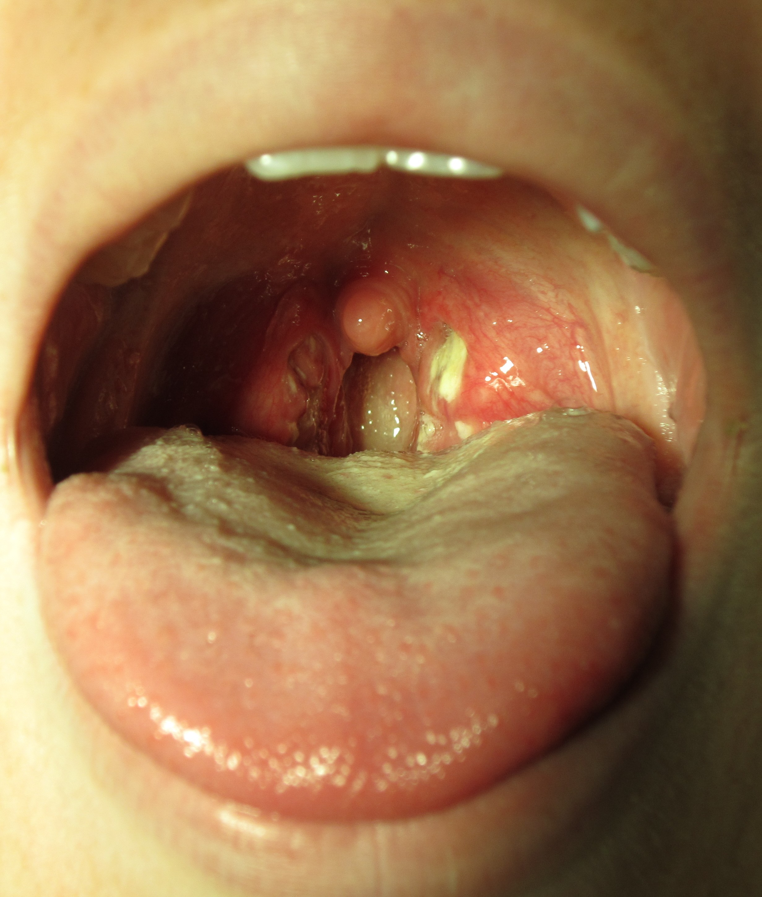 A throat infection which tested negative for streptococcus thus presumably due to a viral cause.